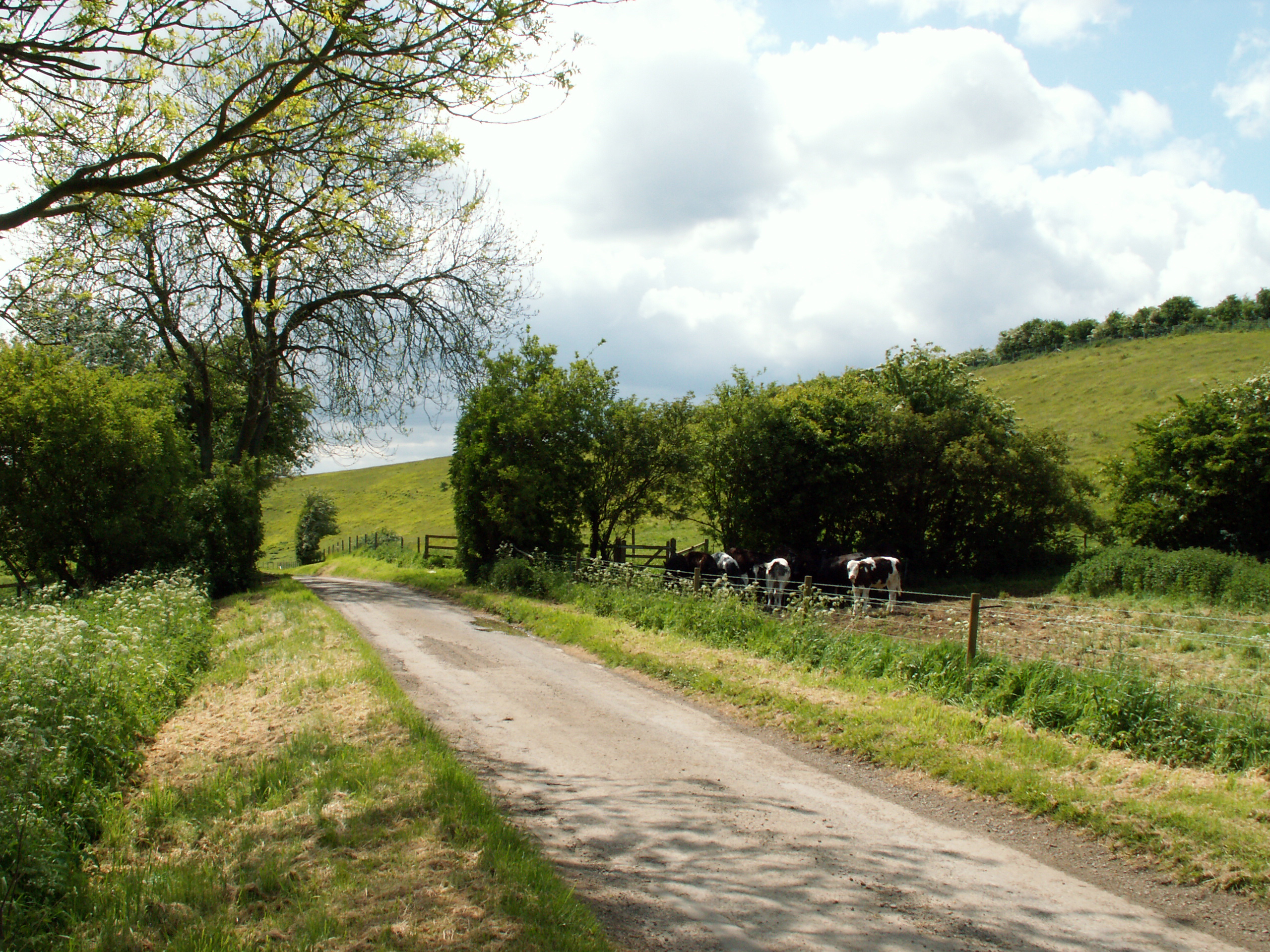 A view looking west in the centre of Woodnook Valley, Little Ponton, Lincolnshire, England. A small herd of cattle on the right.